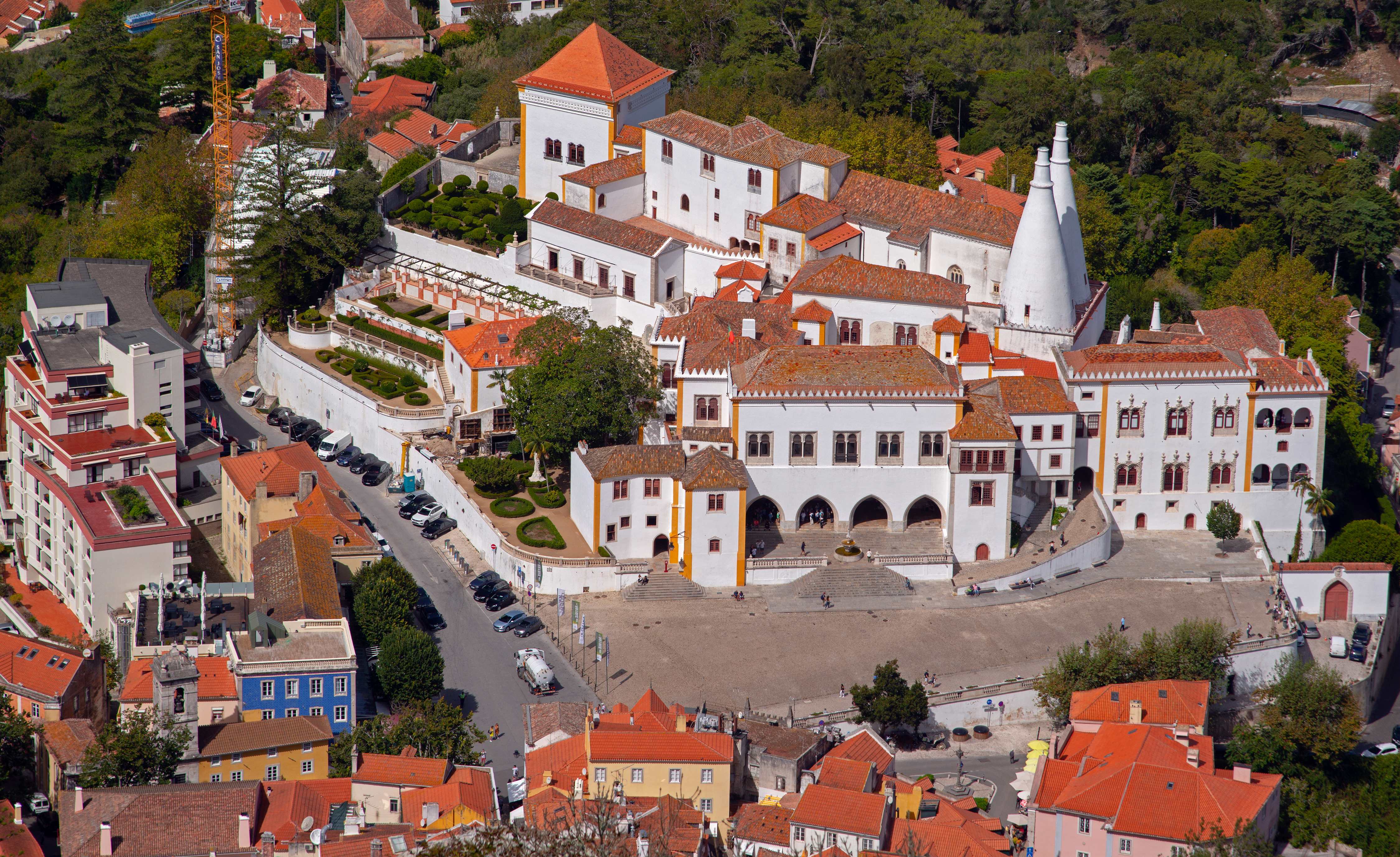 Palacio Nacional de Sintra from above